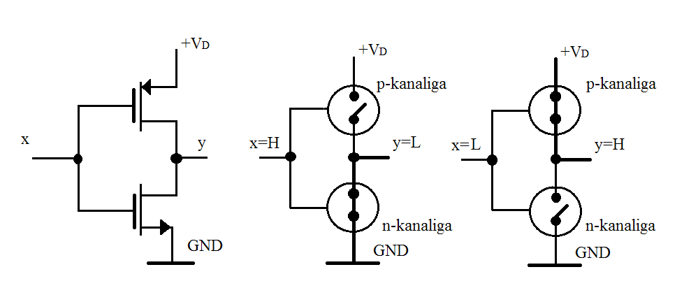 EI-loogikaelement